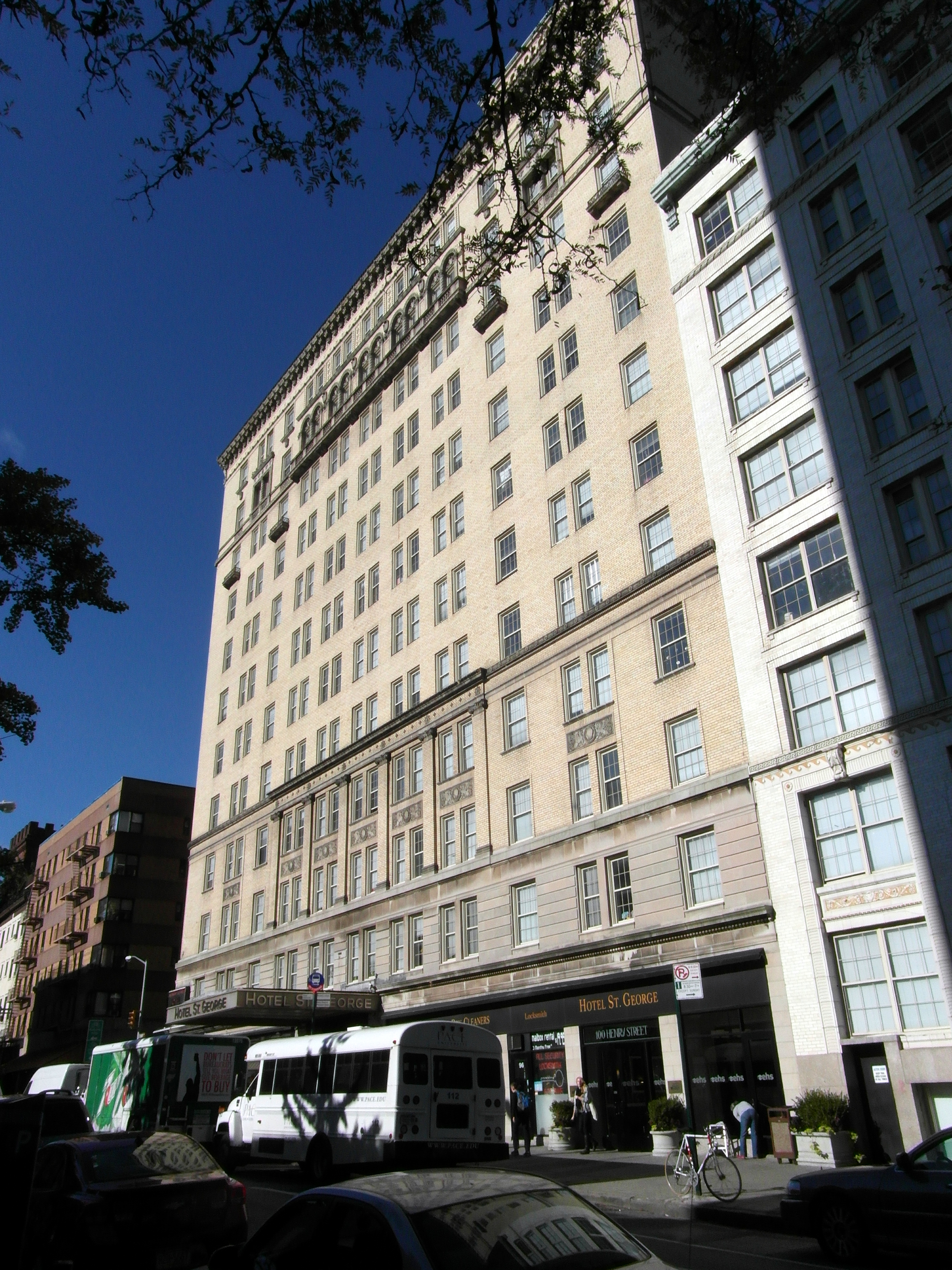 Henry Street, Brooklyn. Designed originally by Augustus Hatfield and opened in 1885, greatly expanded by Montrose W Morris and others from 1890-1920, with this tower section added in 1929-30 by Emery Roth by which time the hotel incorporated 8 separate buildings with 2600 rooms, the largest hotel in New York at the time. Now converted to flats.